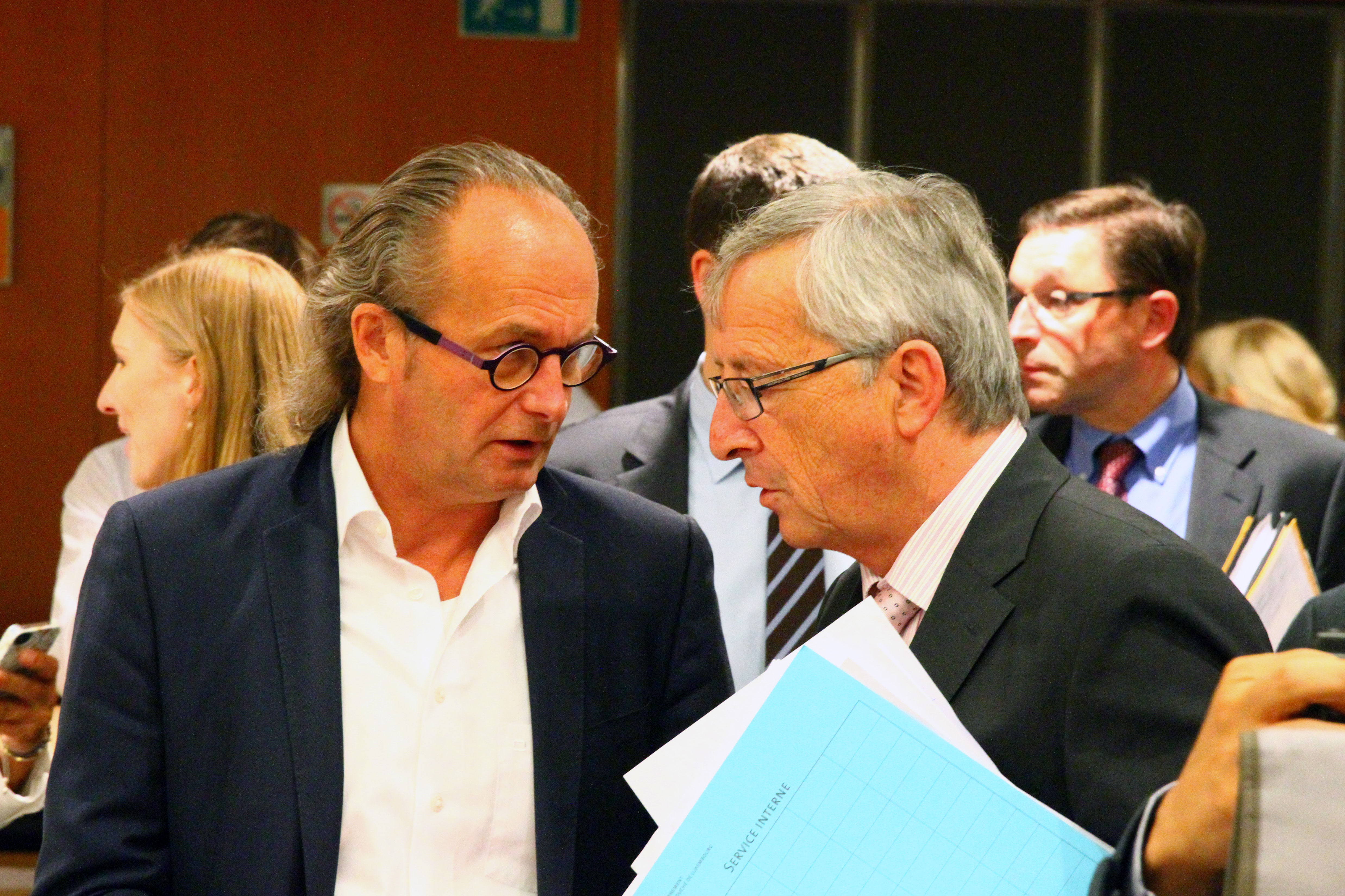 MEPs Claudes Turmes with Jean-Claude Juncker at at hearing of the Greens/EFA parliamentary group